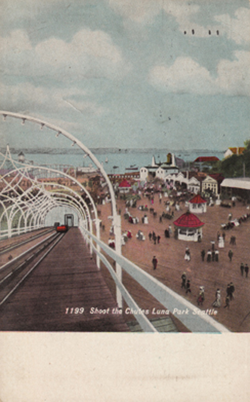 Shoot the Chutes at Luna Park, Seattle